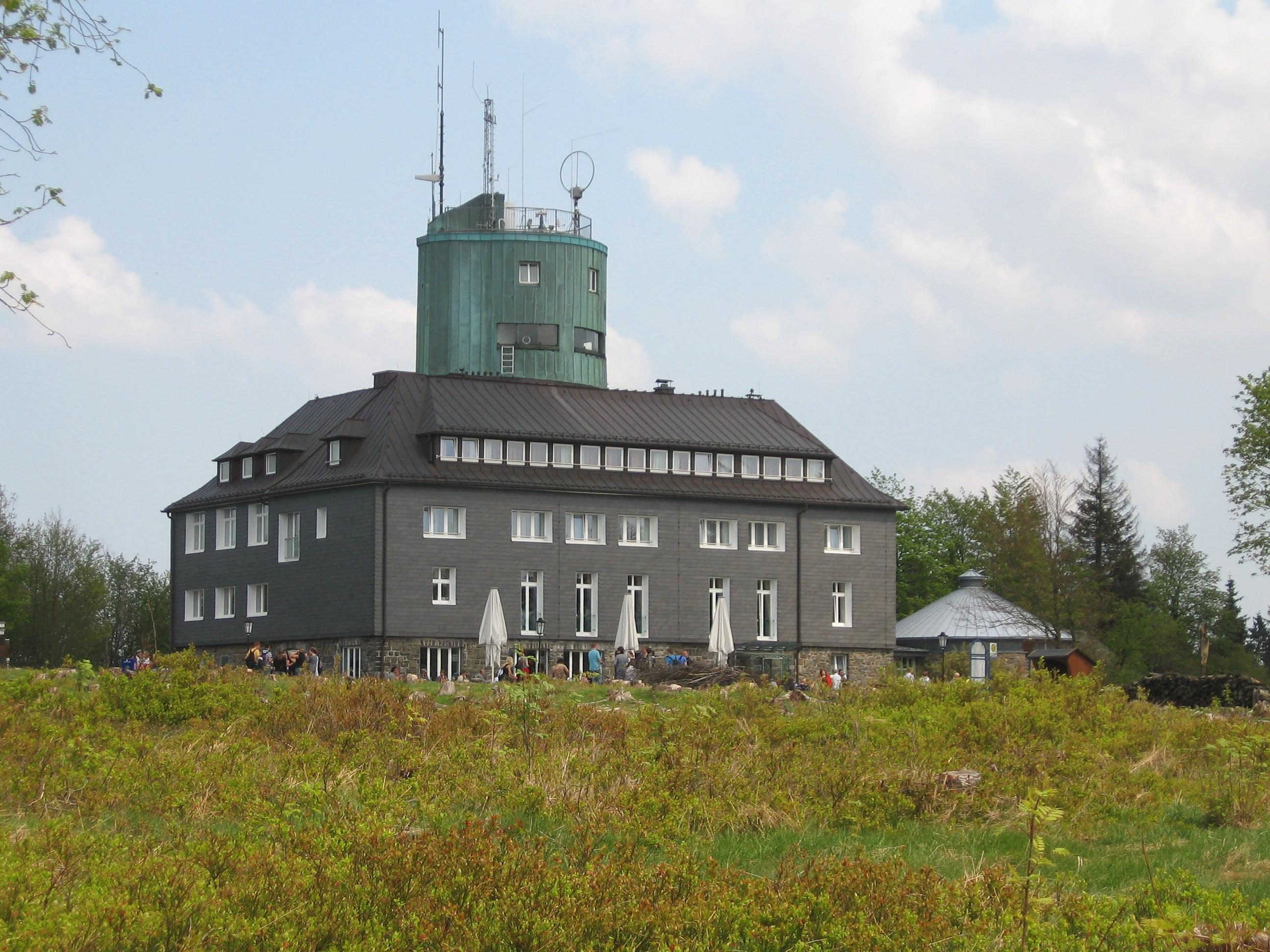 Germany / Rothaar Mountains /Kahler Asten